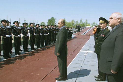 ASTRAKHAN. President Vladimir Putin inspecting an honour guard during his visit to a Caspian Flotilla brigade of warships.